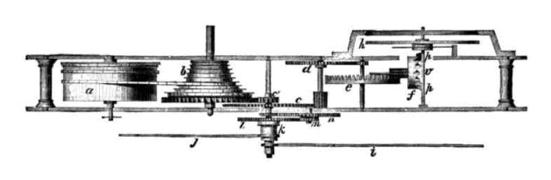 Drawing of an antique pocket watch movement, from an 1891 encyclopedia. This type of movement, with a verge escapement and a fusee was used in watches from around 1600 to the early 1800s. Labelled parts, from accompanying text: (a) mainspring barrel, (b) fusee, (c) center (hour) wheel, (c') center wheel pinion, (d) third wheel, (e) fourth or contrate wheel, (f) crown wheel, (h) balance wheel (the pallets are also labelled h), (i) minute hand, (j) hour hand, (k,l) cannon pinion, (m) minute wheel pinion, (n) minute wheel, (v) verge. Alterations to image: removed figure number, and converted to 32 greyscale PNG.